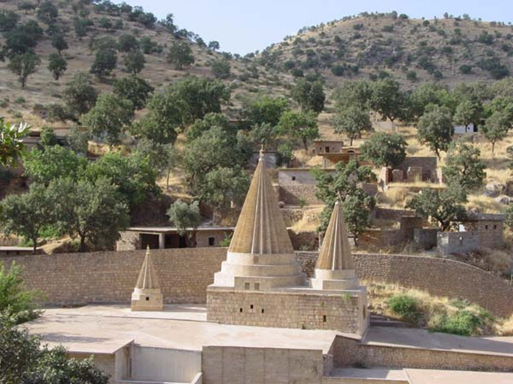 Lalish, in front